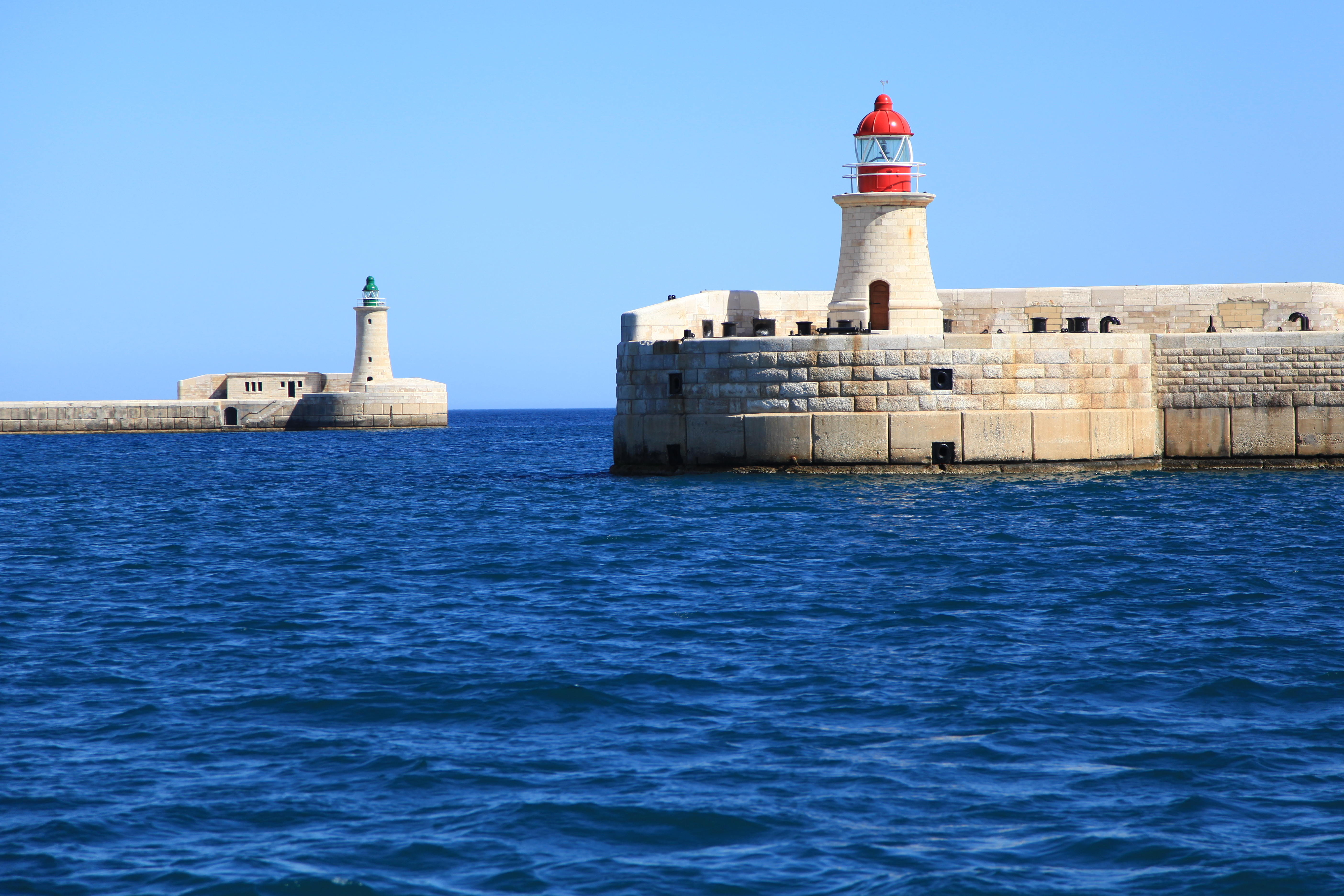 View from a Malta sightseeing two harbours cruise boat to the Valletta Breakwater (LH) in Valletta and the Ricasoli Breakwater (RH) in Kalkara, Malta